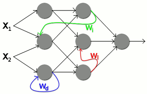 Three type of feedback in RNN neural network.